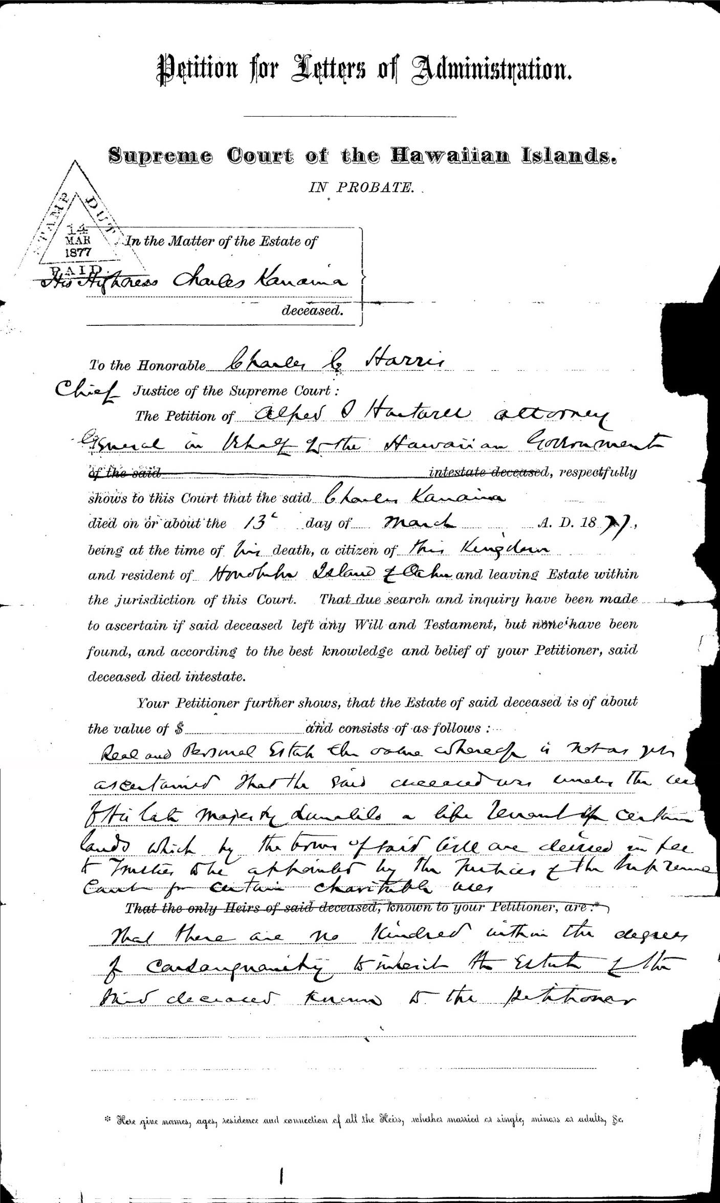 First petition to administer the estate of Charles Kanaina on March 14, 1877. (restored image)